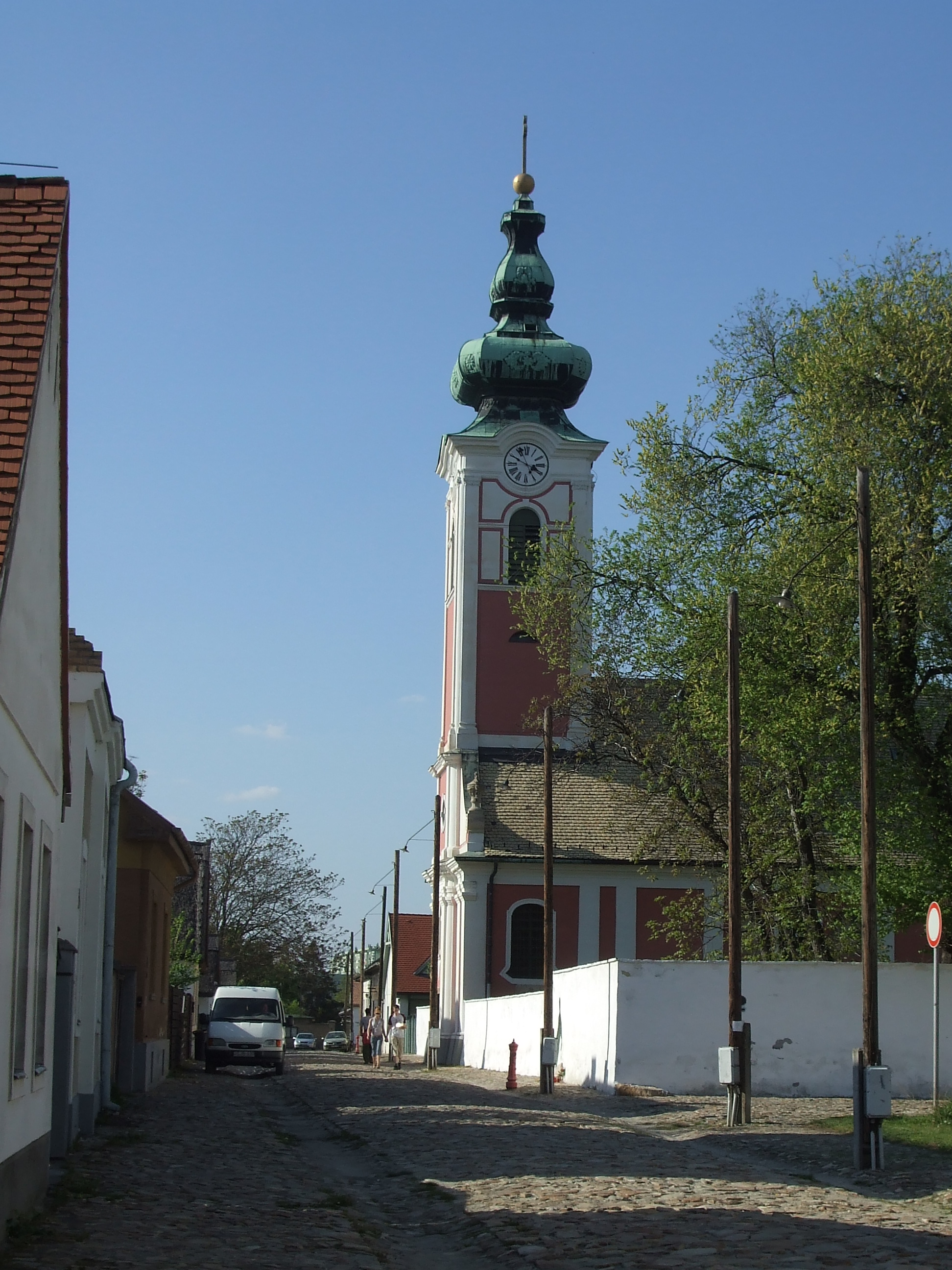 St. John's Serbian Orthodox Church in Székesfehérvár, Hungary